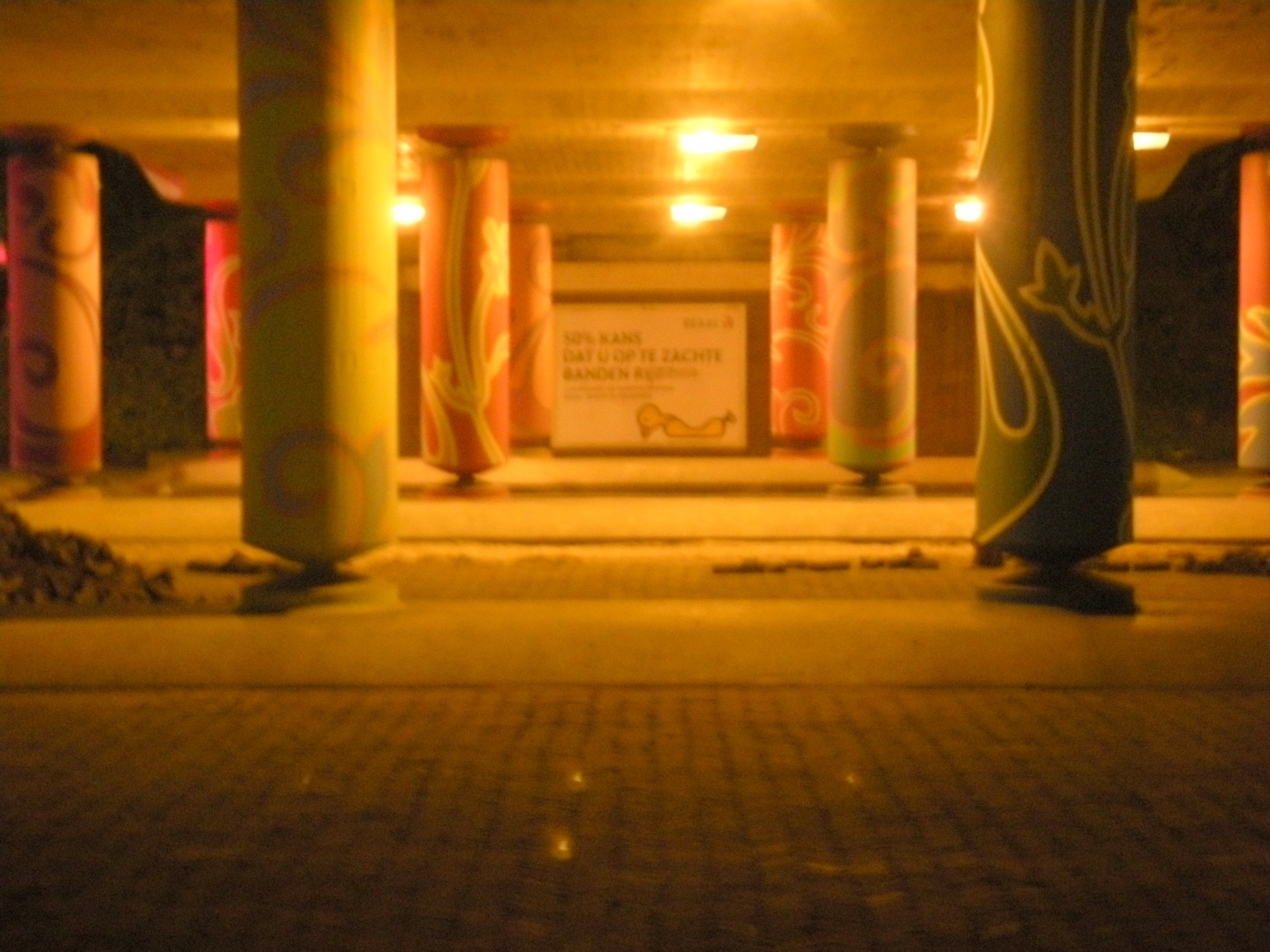 candy cane pilars by night